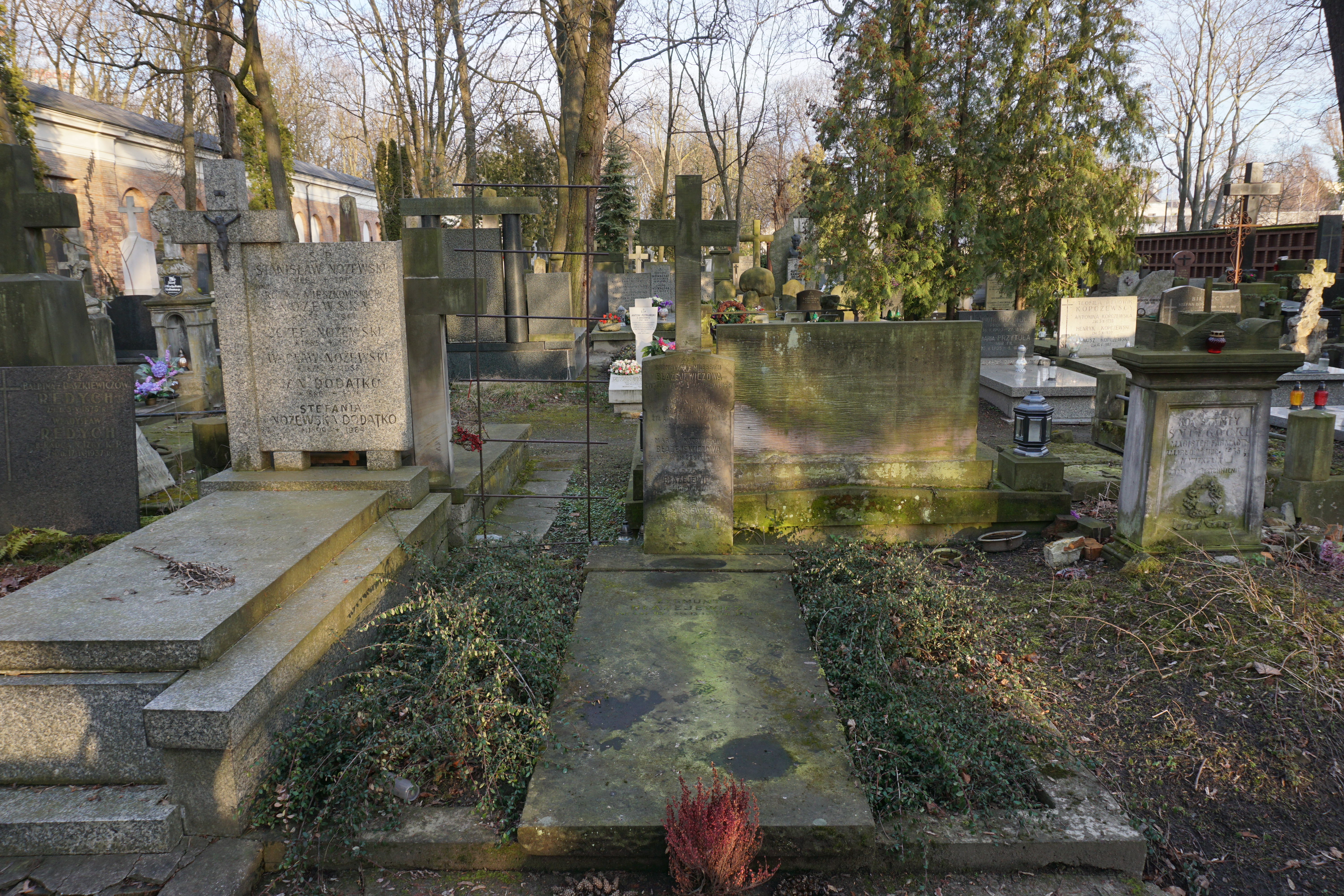 The grave of Tadeusz Błażejewicz at the Powązki Cemetery (section 169, row 6, grave 13, 14)